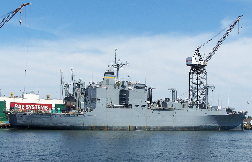 The U.S. Military Sealift Command ammunition ship USNS Mount Baker (T-AE-34) at Norfolk, Virginia (USA), in 2008.